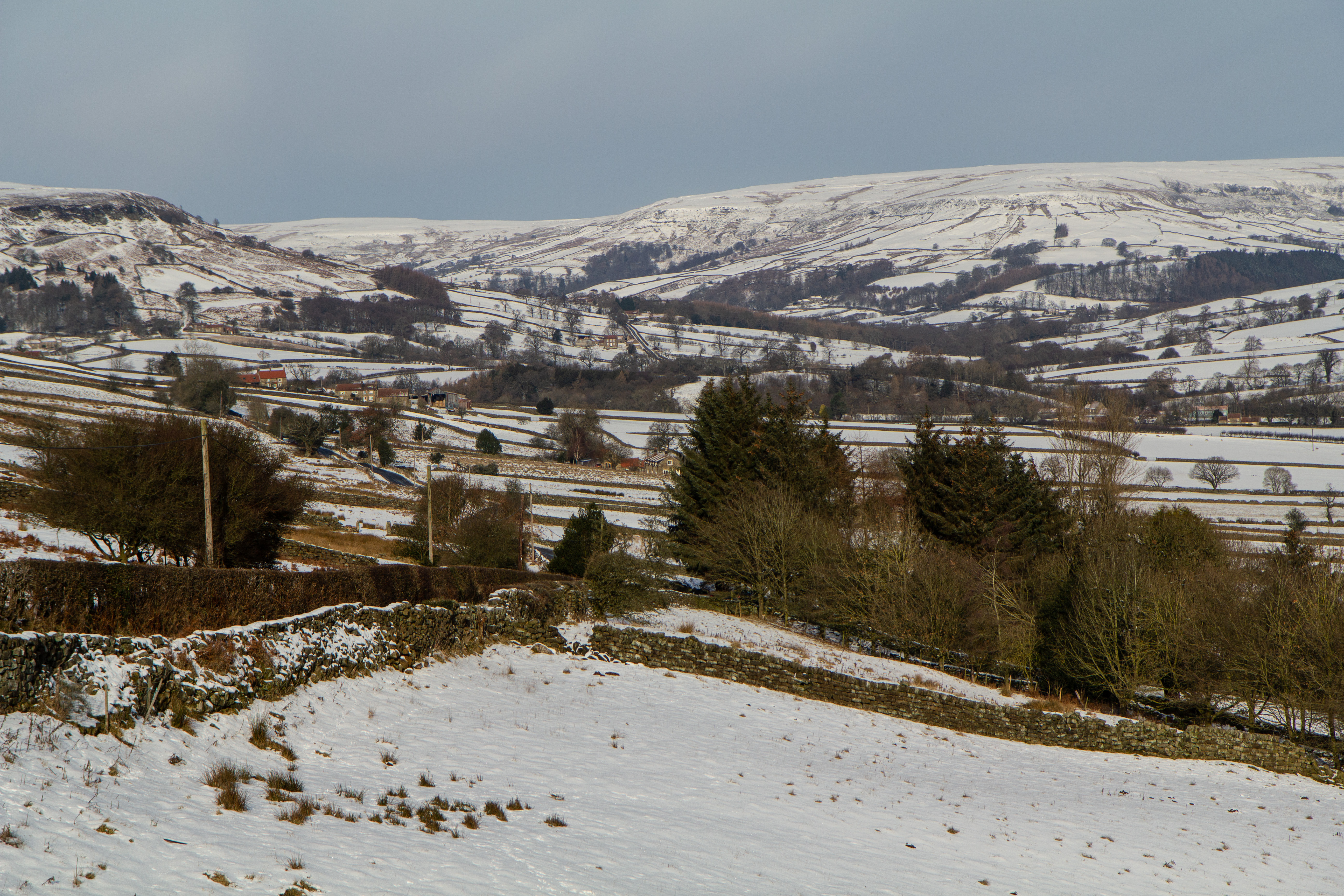 Farndale winter scene from Daleside Road, looking north.